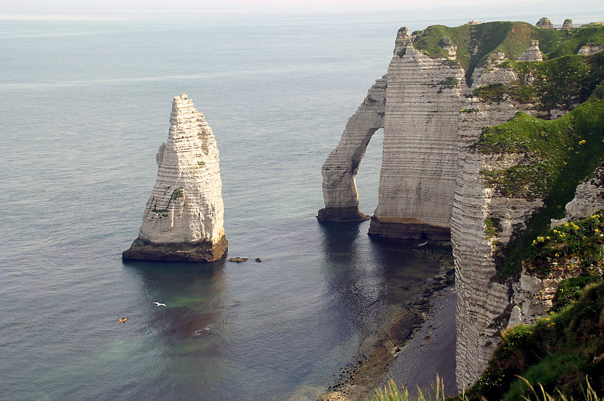 Étretat is a seaside resort in Normandy, France. The town is known for the steep coast with the rock formations "Porte d'Aval" and "L'Aiguille".